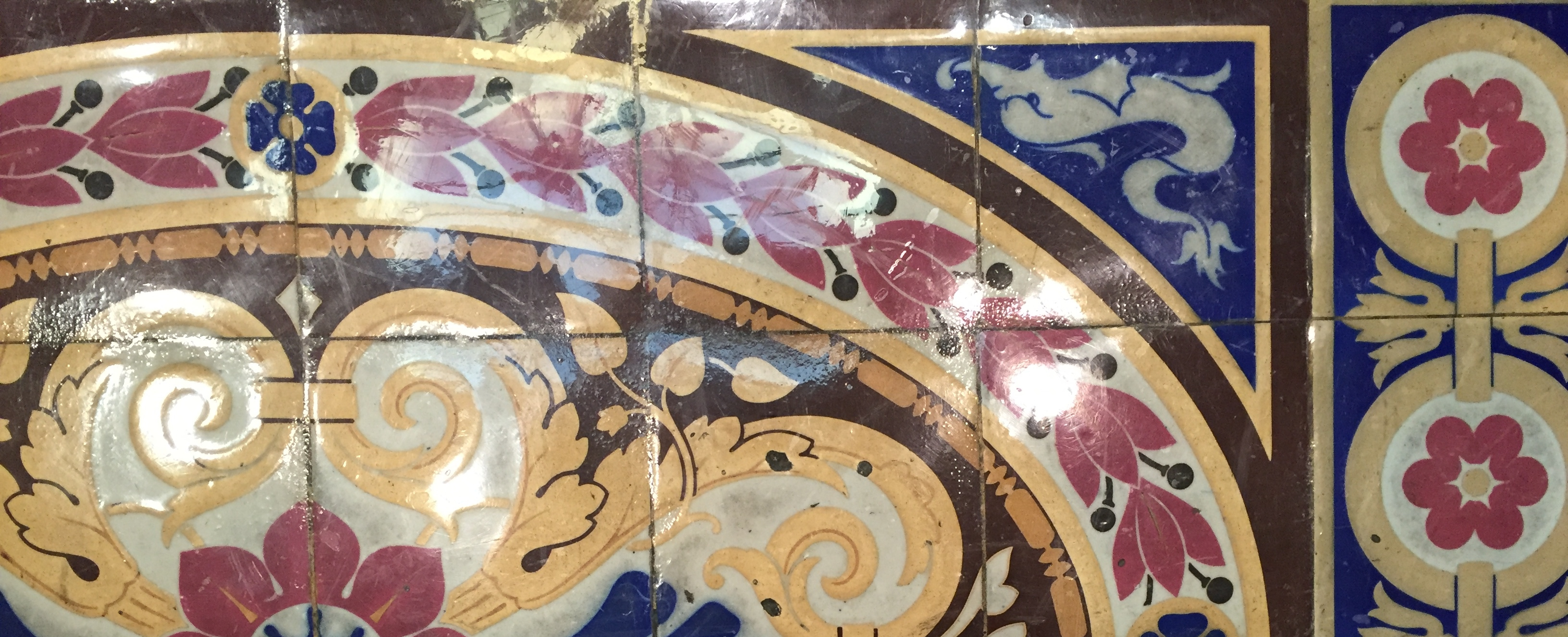 Some of the Minton tile on the floor of the Indian Treaty Room in the Eisenhower Executive Office Building in Washington DC.